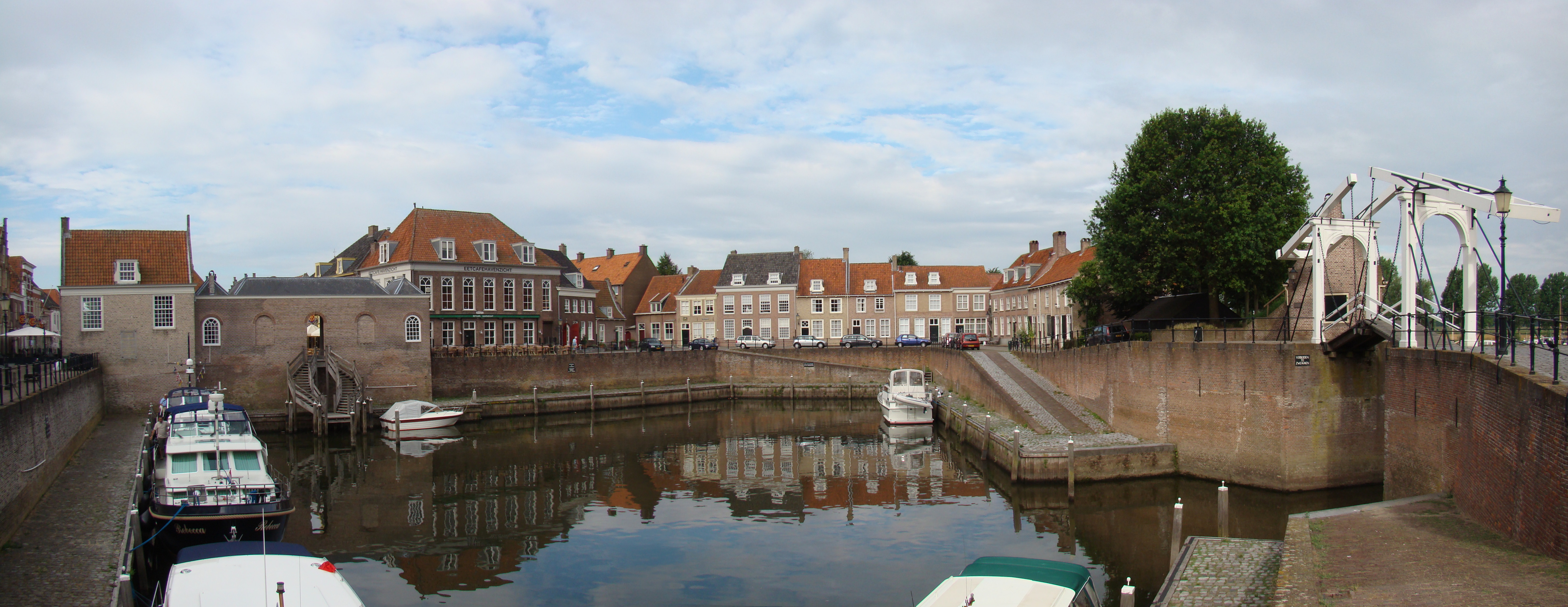 Panorama pictures of Heusden (Netherlands)